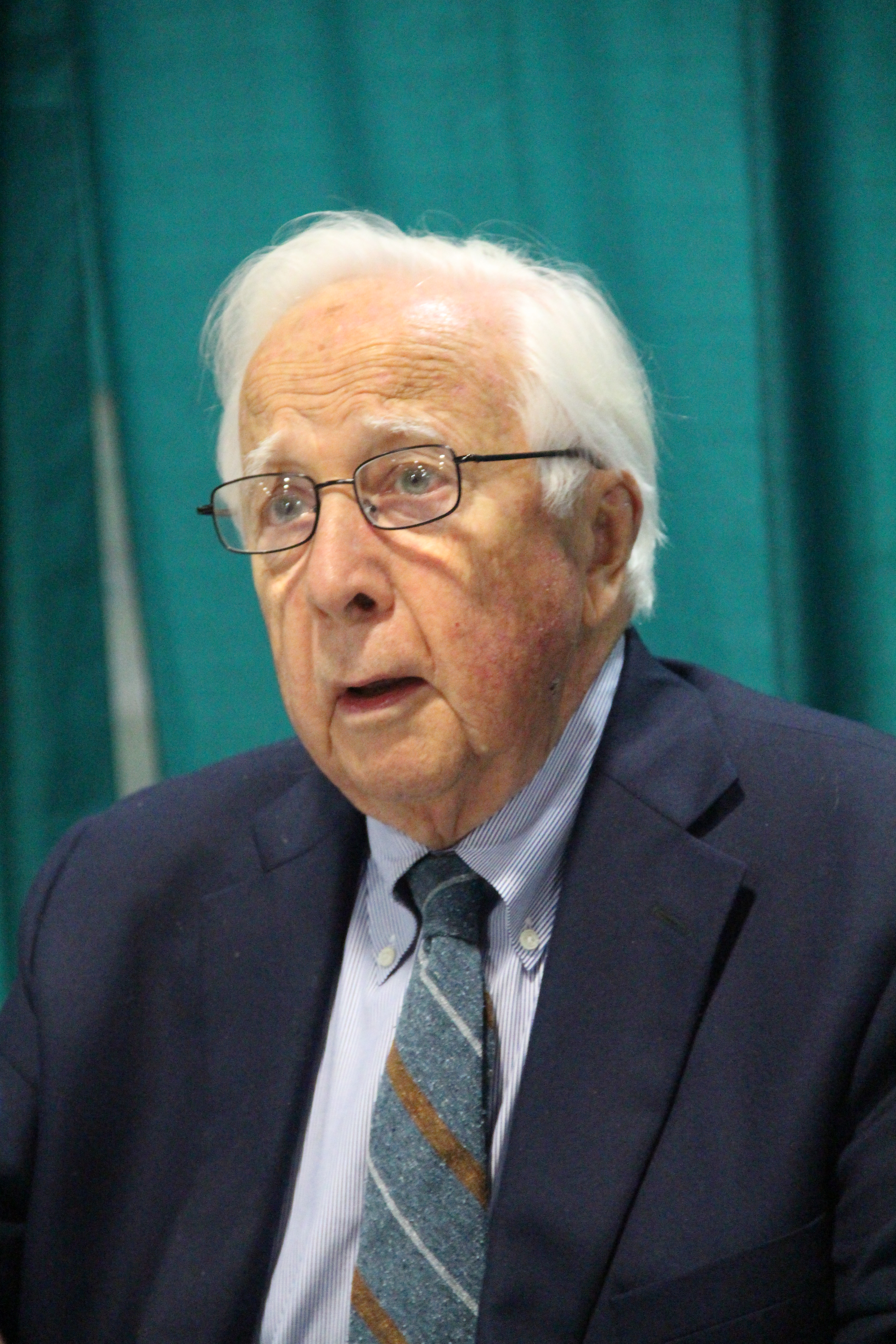 2015 Library of Congress National Book Festival September 5, 2015 Washington, DC